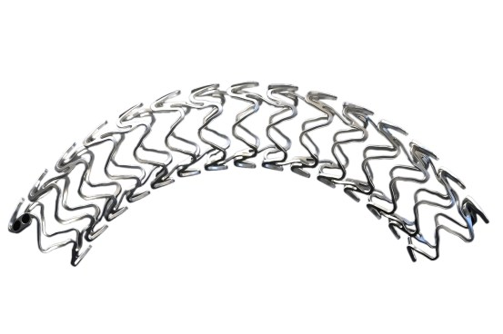 استنت ساخته شده از منیزیم